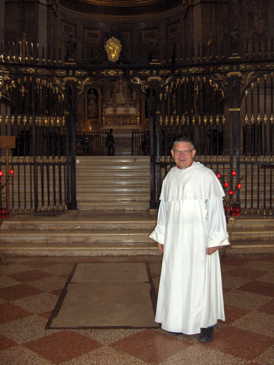 Dominican in front of the Rosary chapel; Basilica of Saint Dominic, Bologna, Italy